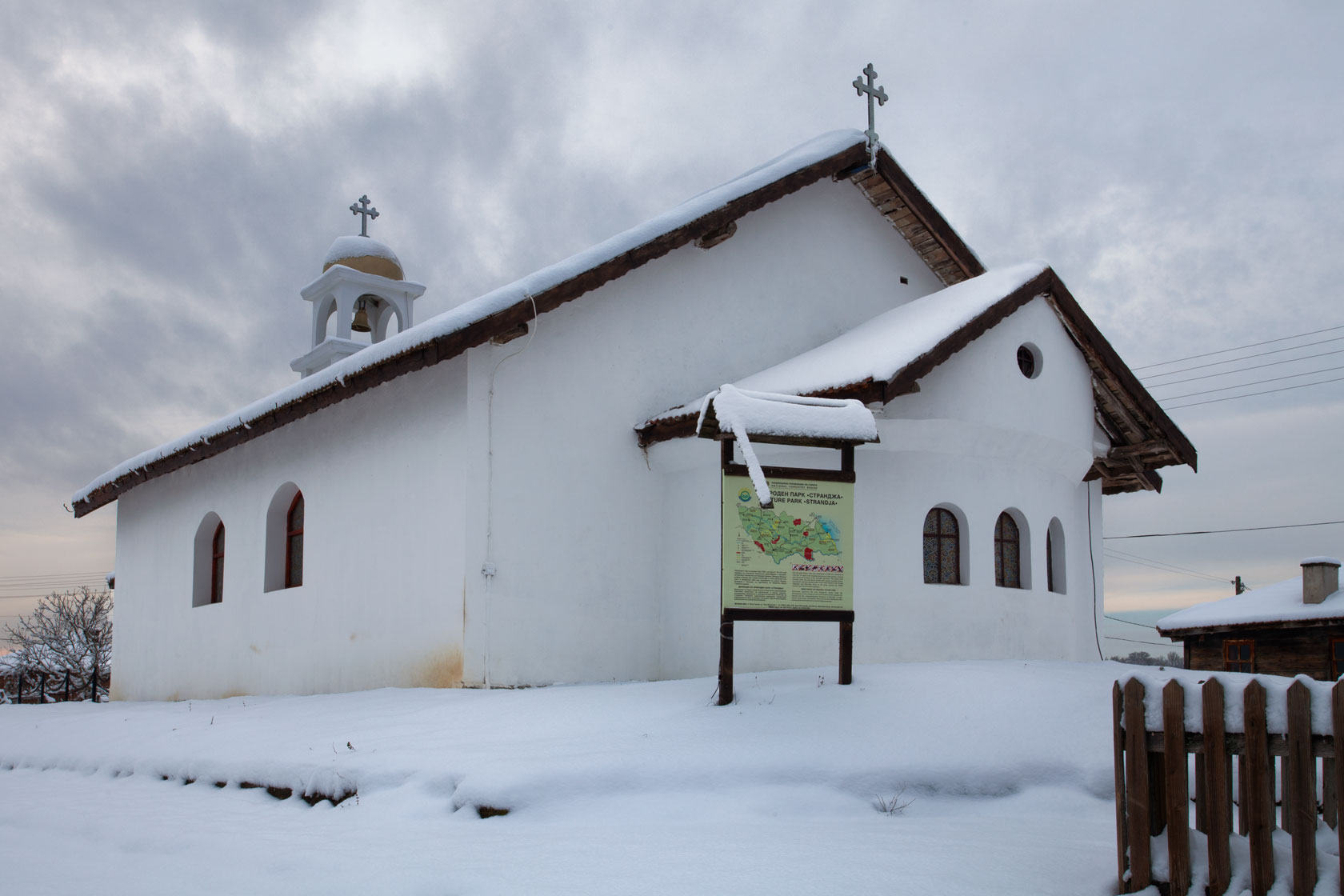 St. Iliya Church